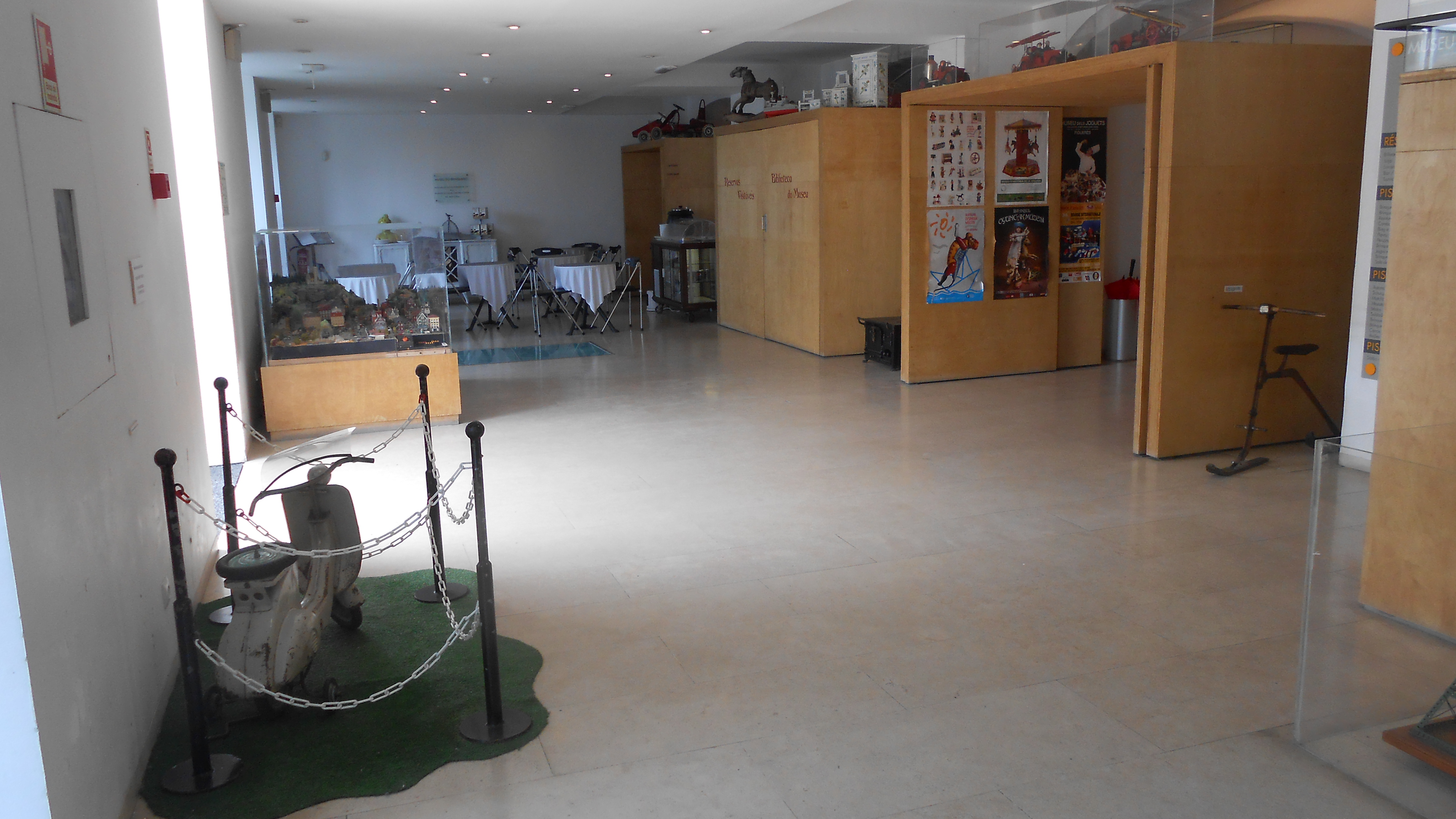 Entrance hall to the toy museum in Sintra, Portugal.